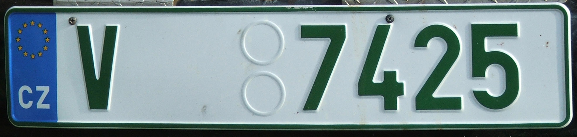 Czech special registration plate issued for veteran cars starting by V (green letters instead of normal black ones)